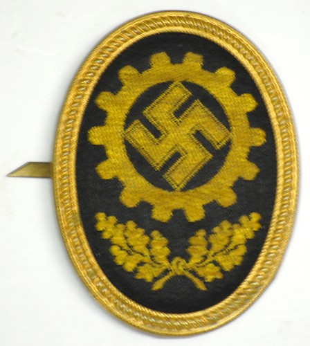 Third Reich Labour Front hat badge (DAF Mützenabzeichen), RZM marked. Festival visor cap badge for Deutsche Arbeitsfront (DAF): Vertical oval metal badge in a gold finish. The badge consists of a decorative gold border containing a black cloth panel, bearing a central DAF logo of a swastika within a cogged wheel above an oak leaf motif, embroidered in gold thread. Legal disclaimer This image shows (or resembles) a symbol that was used by the National Socialist (NSDAP/Nazi) government of Germany or an organization closely associated to it, or another party which has been banned by the Federal Constitutional Court of Germany. The use of insignia of organizations that have been banned in Germany (like the Nazi swastika or the arrow cross) are also illegal in Austria, Hungary, Poland, Czech Republic, France, Brazil, Israel, Ukraine, Russia and other countries, depending on context. In Germany, the applicable law is paragraph 86a of the criminal code (StGB), in Poland – Art. 256 of the criminal code (Dz.U. 1997 nr 88 poz. 553).